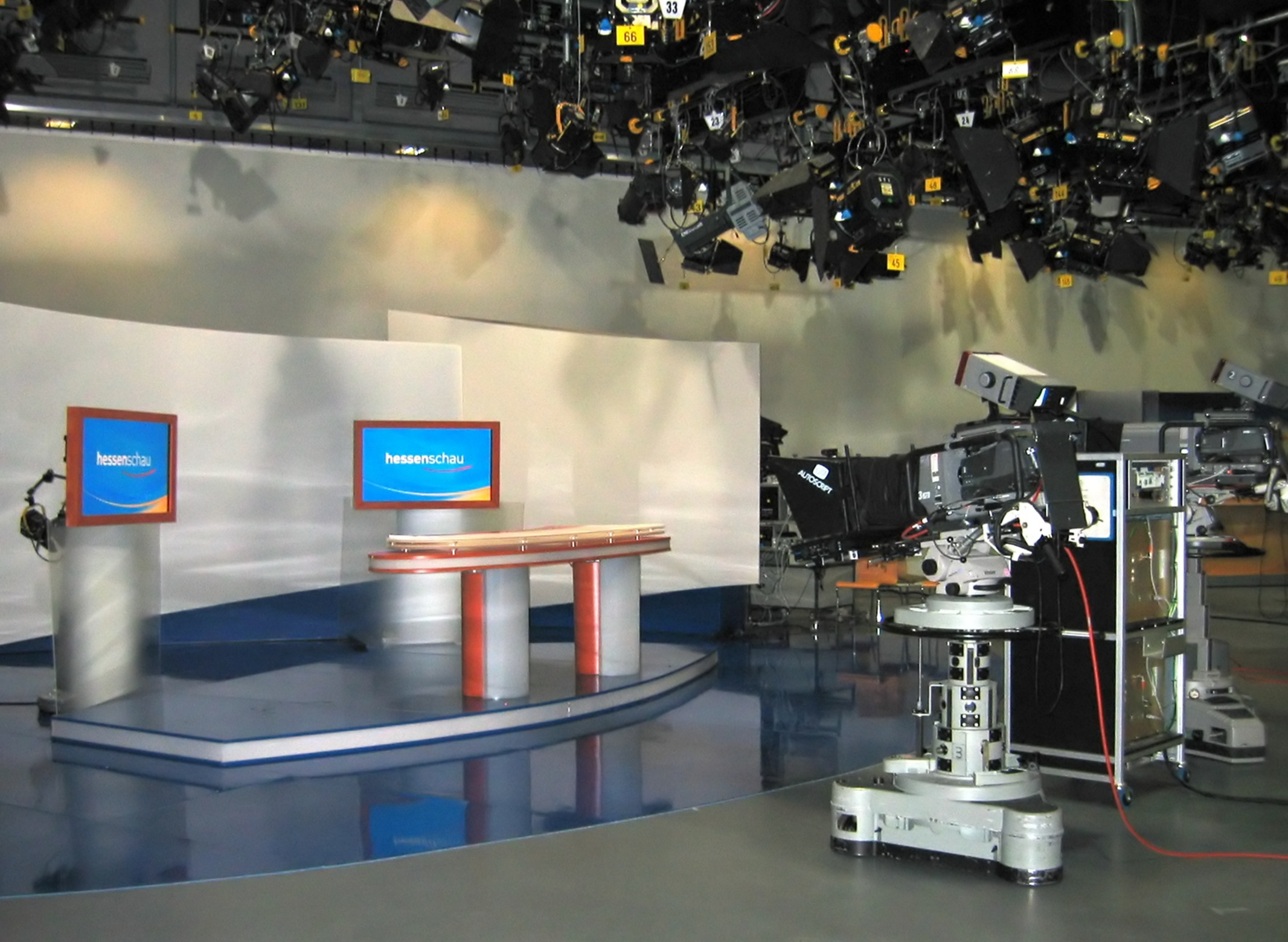 Television studio of Hessenschau, Hessischer Rundfunk, Frankfurt am Main